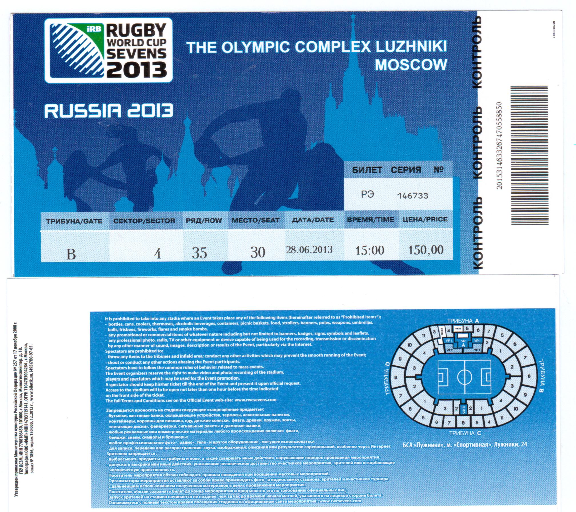 2013 Rugby World Cup Sevens Ticket